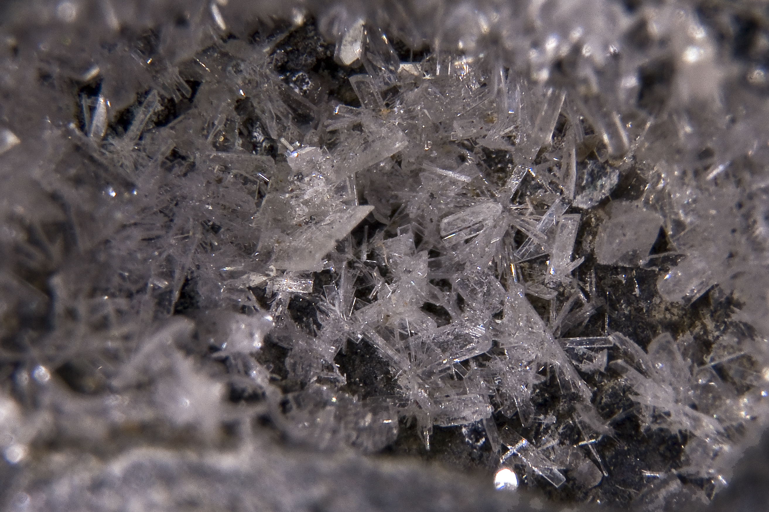 Laurionite Locality : Thorikos Bay slag locality, Thorikos area, Lavrion District slag localities, Lavrion (Laurion; Laurium) District, Attikí (Attica; Attika) Prefecture, Greece ::Size :view 1.4x0.6cm